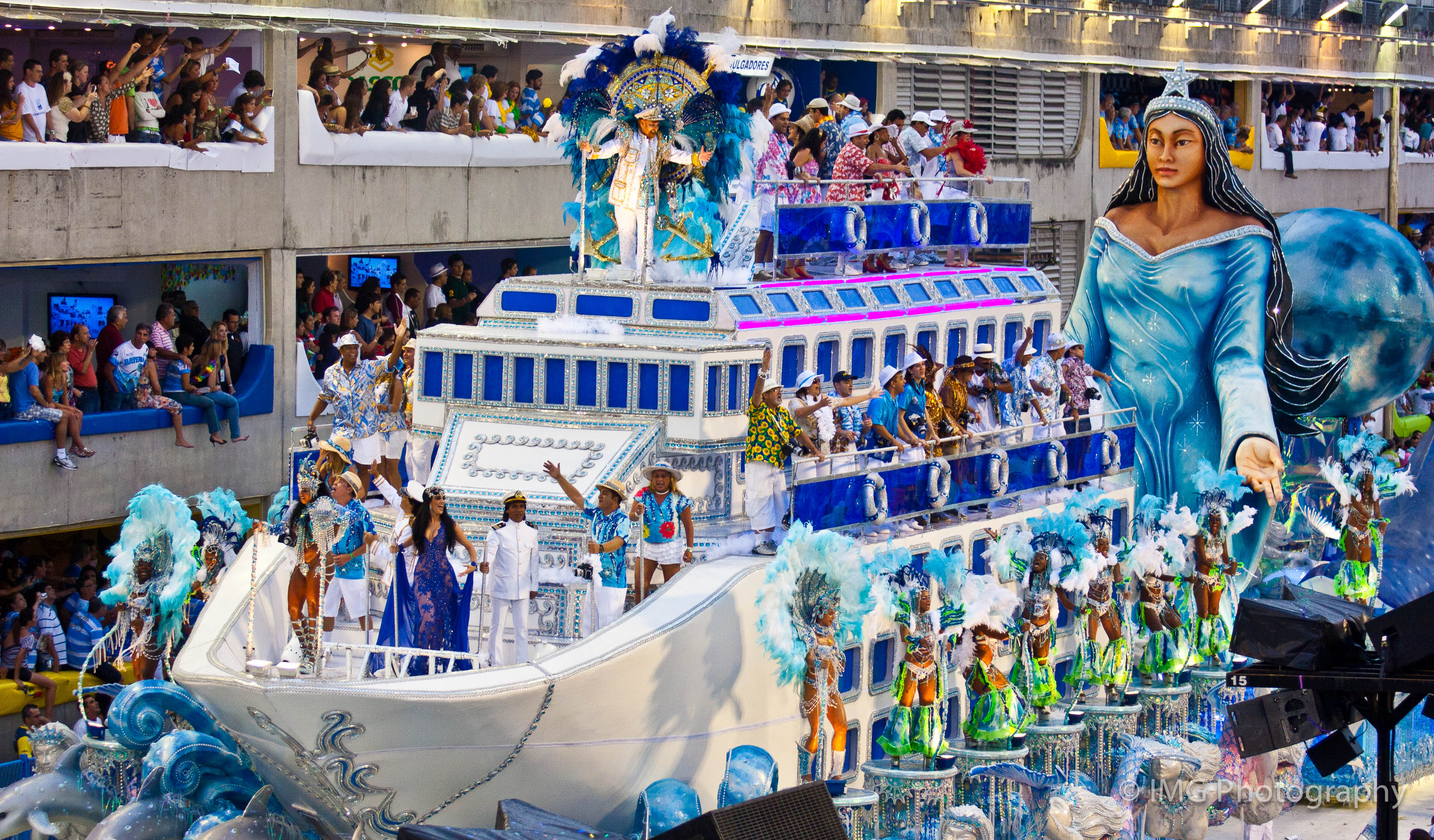 7th Float: The Enchanted Cruise Sails Through The Marques De Sapucai